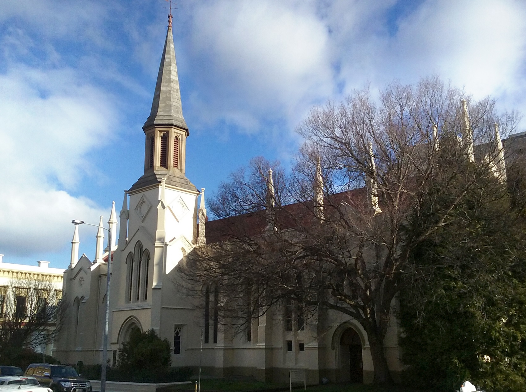 Photo of St Andrew's Presbyterian Kirk of 1849 taken from the gardens of the Launceston Public Buildings on 17 October 2015